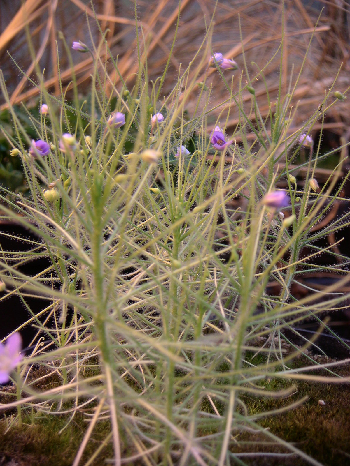 Byblis liniflora, flowering